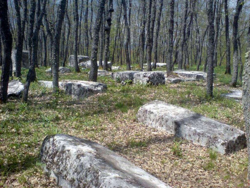 This image was uploaded as part of Trace of Soul 2015.